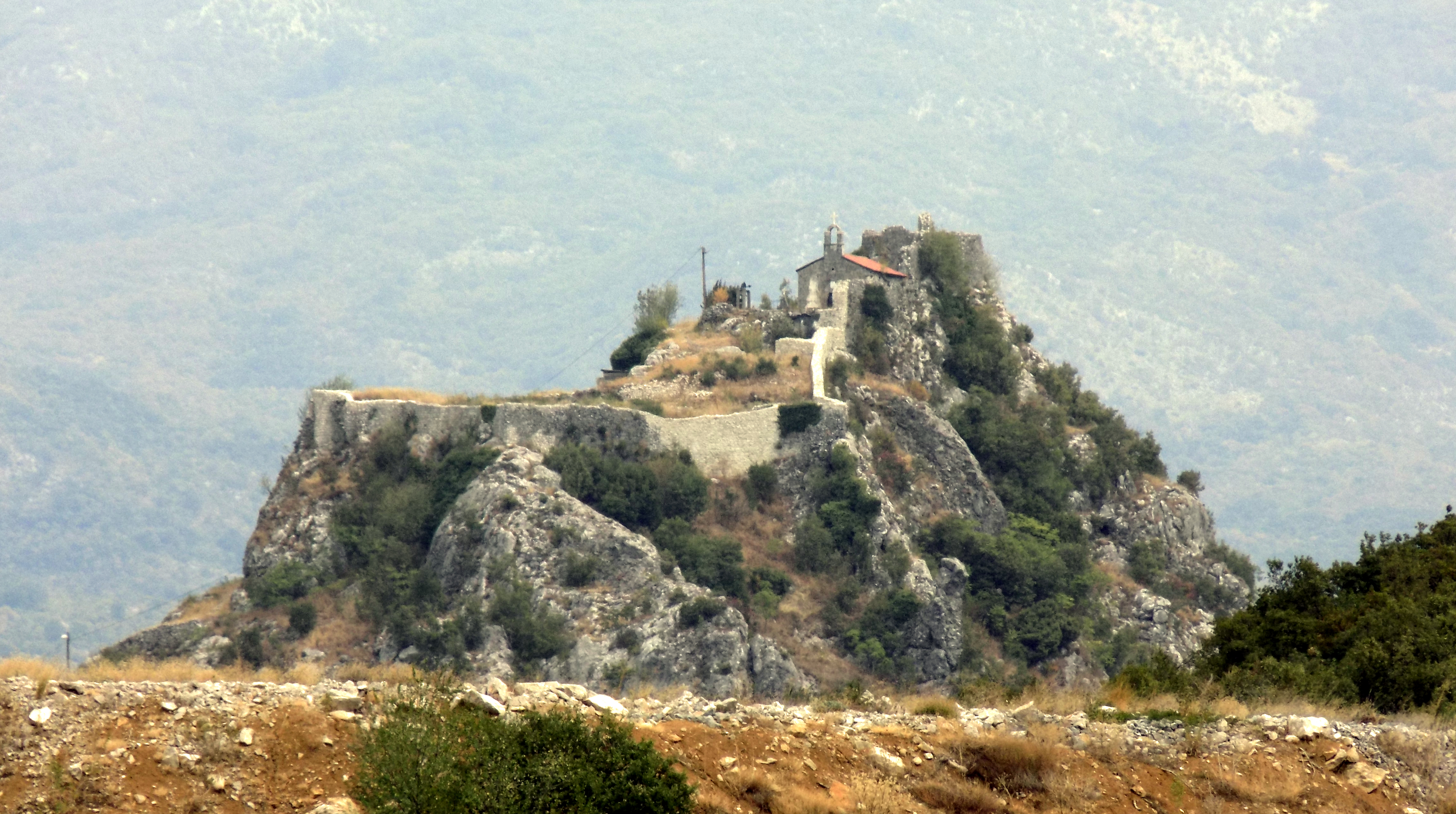 Remains of the ancient city of Meteon. In its place today is a church next to which is (in the acropolis) is buried famous Montenegrin military leader, politician and writer Marko Miljanov